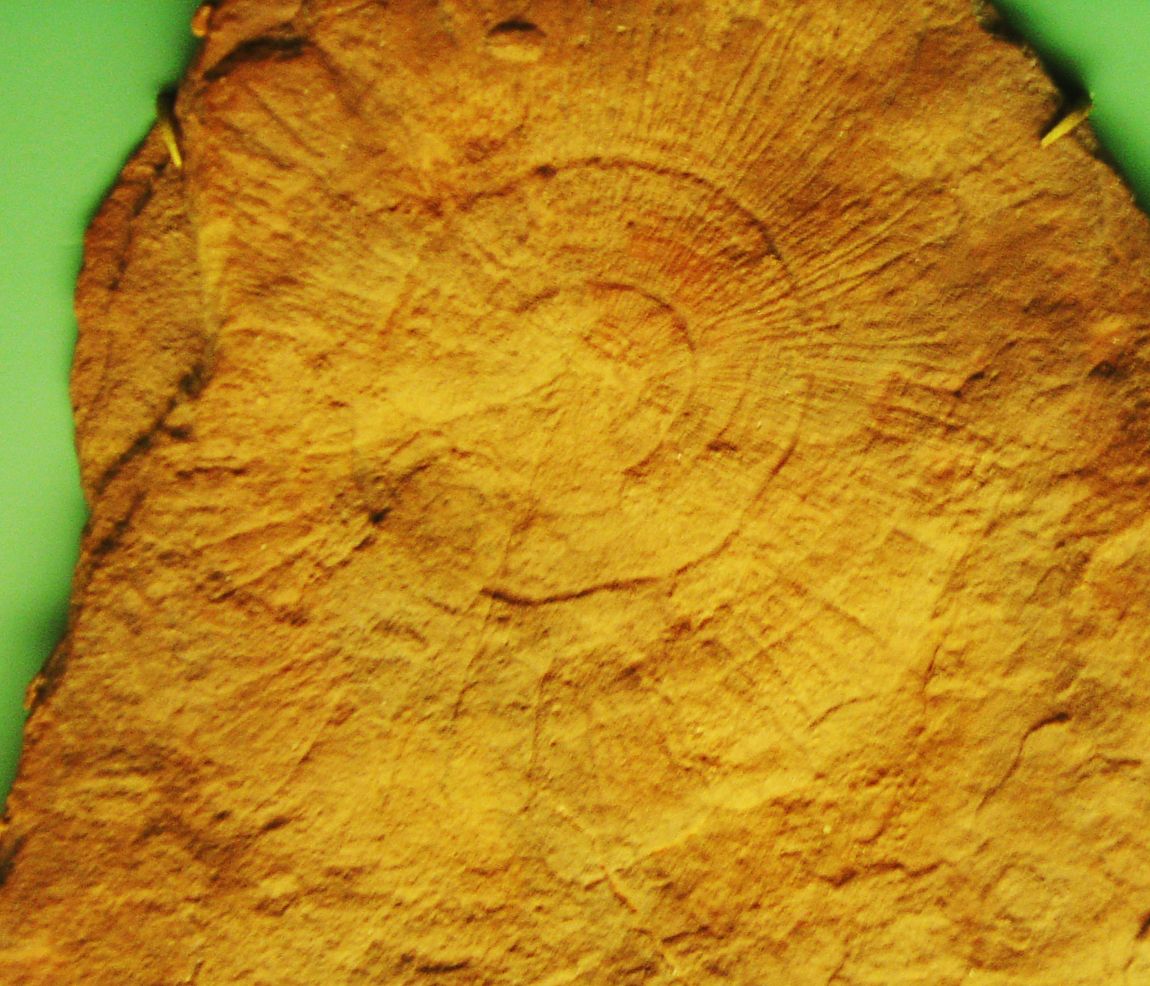 Medusinites asteroides from the Ediacaran Ediacara Member of the Rawnsley Quartzite in the Ediacara Hills, South Australia on display at the US. National Museum, Washington